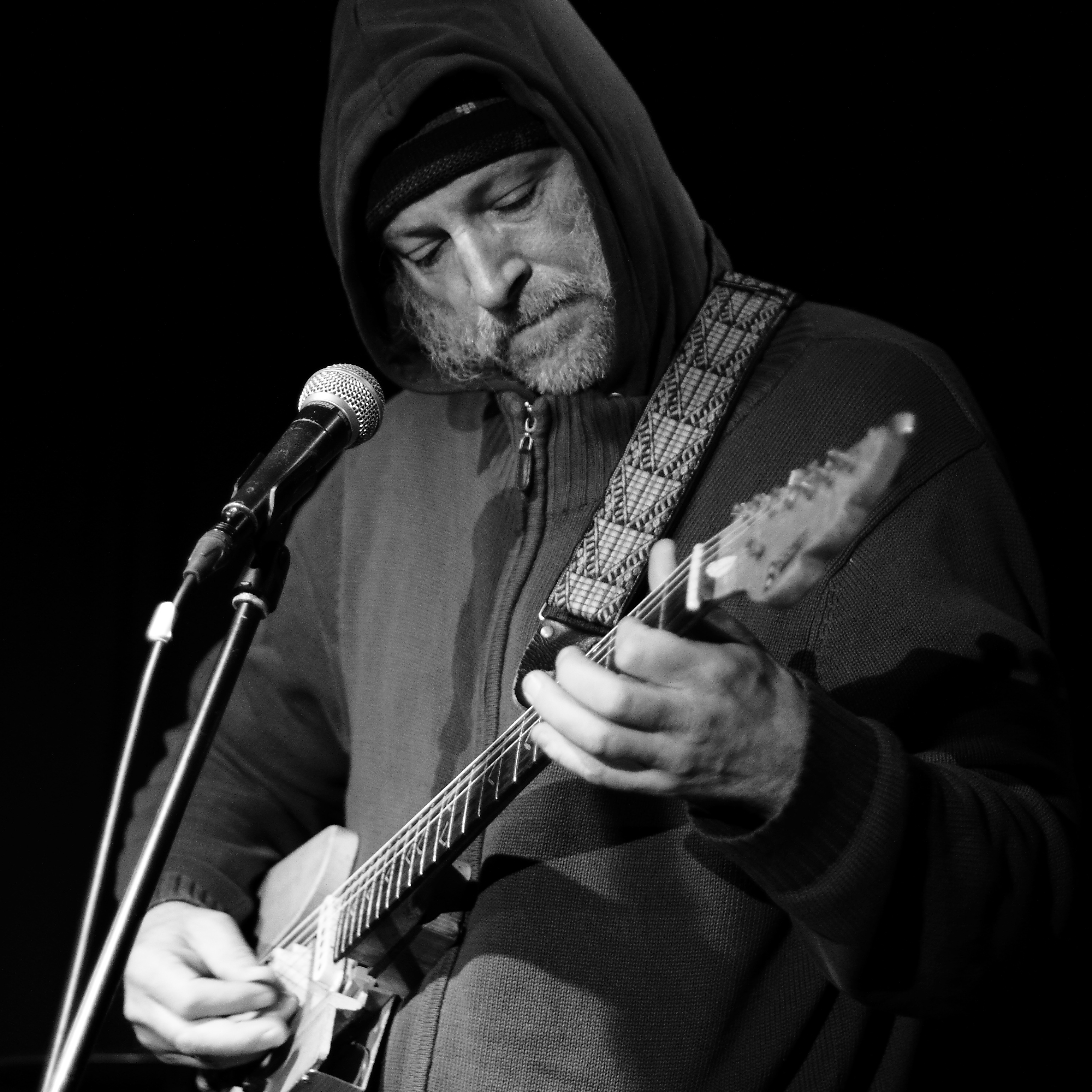 Henry Barnes (Amps for Christ) in concert at Club W71, Weikersheim.